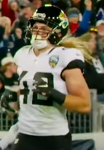 Andrew Wingard 2019. Image from video Titans Mic'd Up vs. Jaguars (Week 12) | Sounds of the Game, ~ 03:35